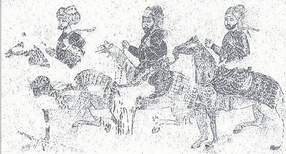 self-depiction of three moorish knights found on Alhambra's Ladies Tower.